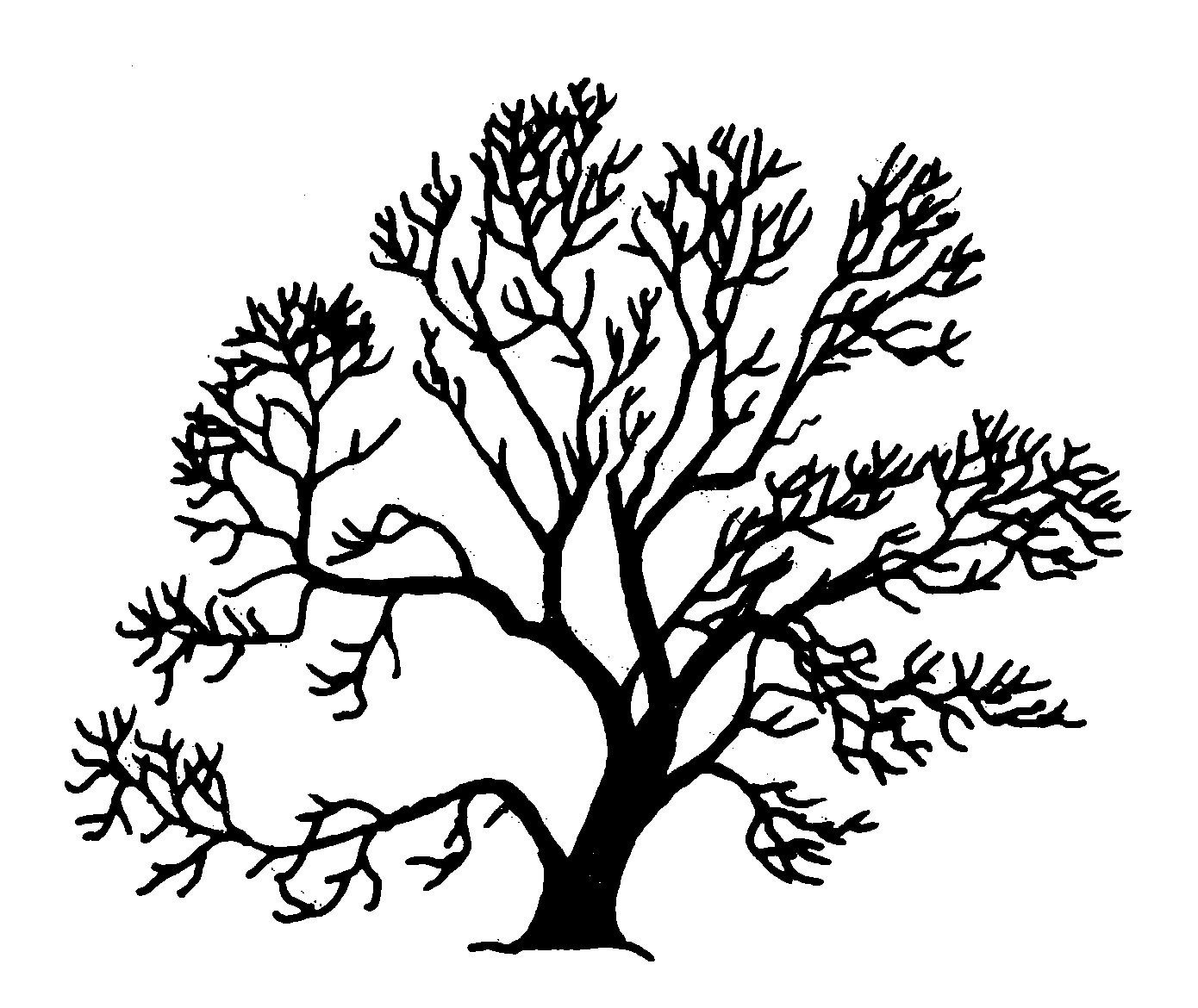 Crack Willow - Salix fragilis